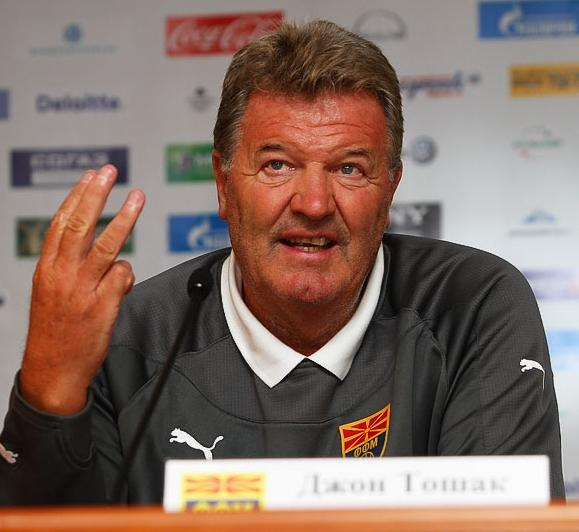 John Toshack coaching FYR Macedonia national football team in 2011.